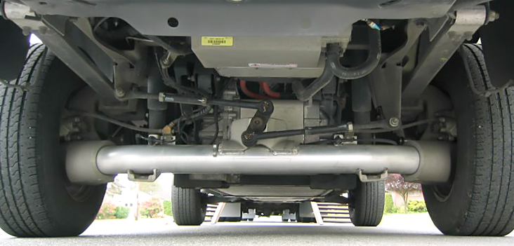 Ford Ranger EV - image by Geoff Shepherd, uploaded with permission by User:Leonard G., see Austin EV site and Geoff Shephard's Ranger EV Photo Album for source and other images. This is a cropped version of this image In the 1998 Ford Ranger EV, carbon fiber leaf springs support a DeDion tube located by a Watt's linkage while the motor/transmission is attached to chassis.